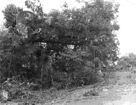 Camouflaged radar of the S-75 Dvina (NATO reporting cole: SA-2 Guideline) in Nort Vietnam, circa 1968.